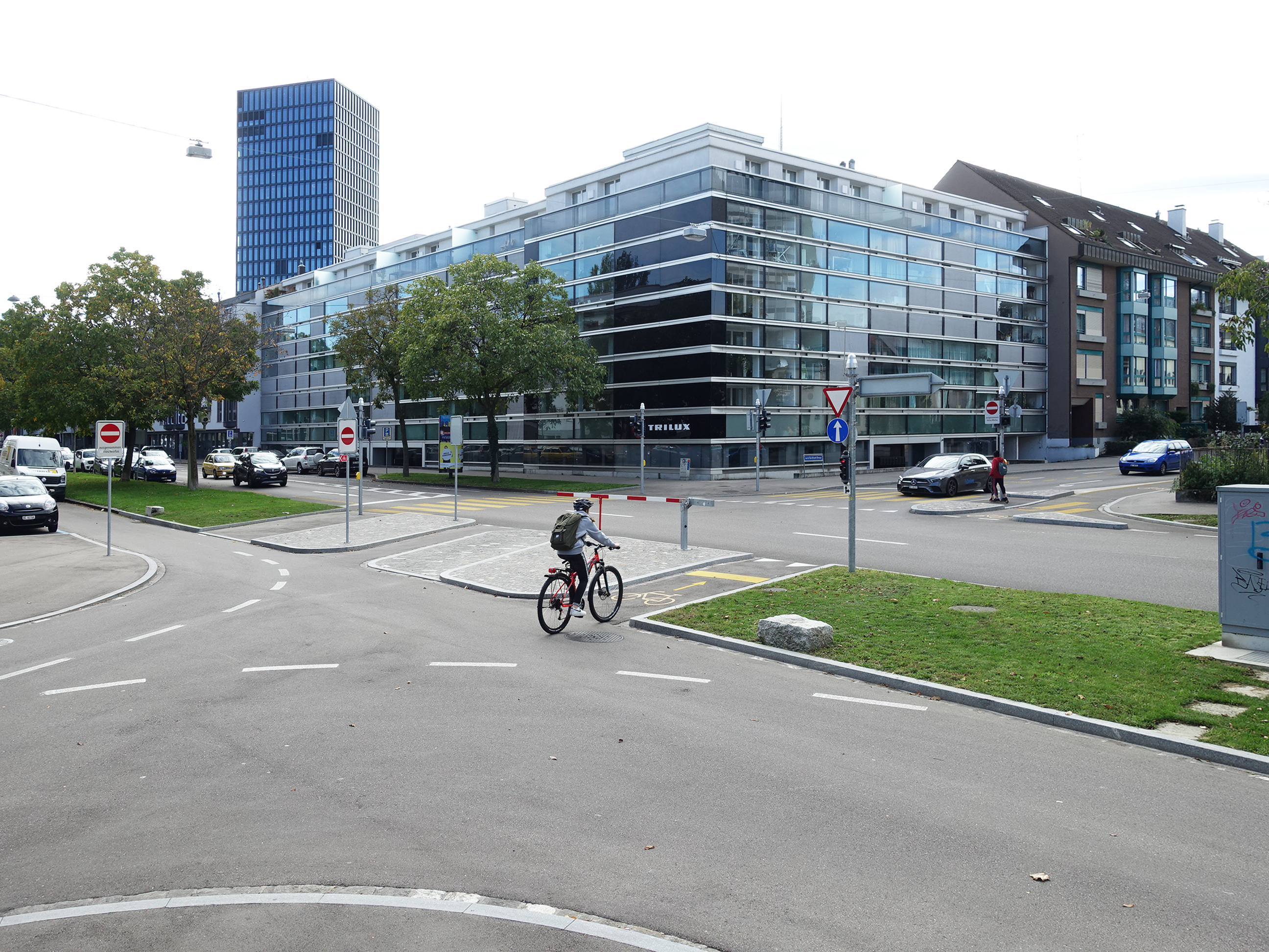 During the redesign of Jacob Burckhardt-Strasse in Basel in 2018, the residential area was relieved of through traffic using a modal filter. The residential environment of the node with a four-lane main road in front of it has become more attractive due to traffic calming. Bicycle traffic can continue to use the crawl path across the intersection. Photo: Konrad Krause / ADFC